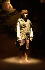 Frodo (Joe Sofranko) in the musical comedy from The Lord of the Rings in Cincinnati.